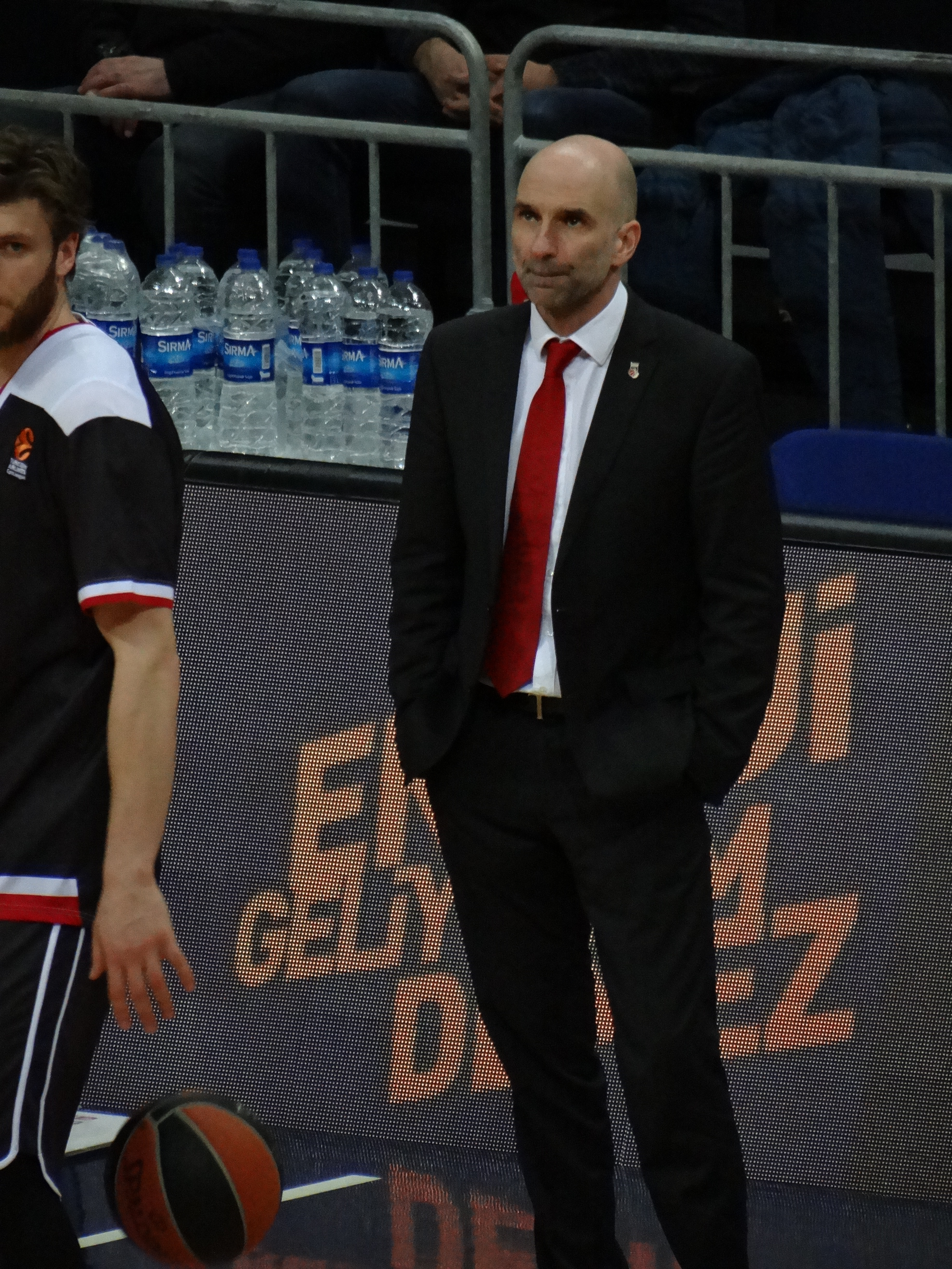 Ilias Kantzouris Brose Bamberg EuroLeague 20180209